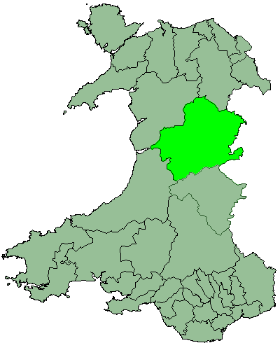 Map of Montgomeryshire District, 1974 - 1996. Based on Image:WalesAlynAndDeeside1974.png